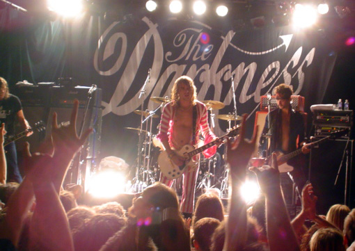 The Darkness live at Sydney's Gaelic Club in January 2004.